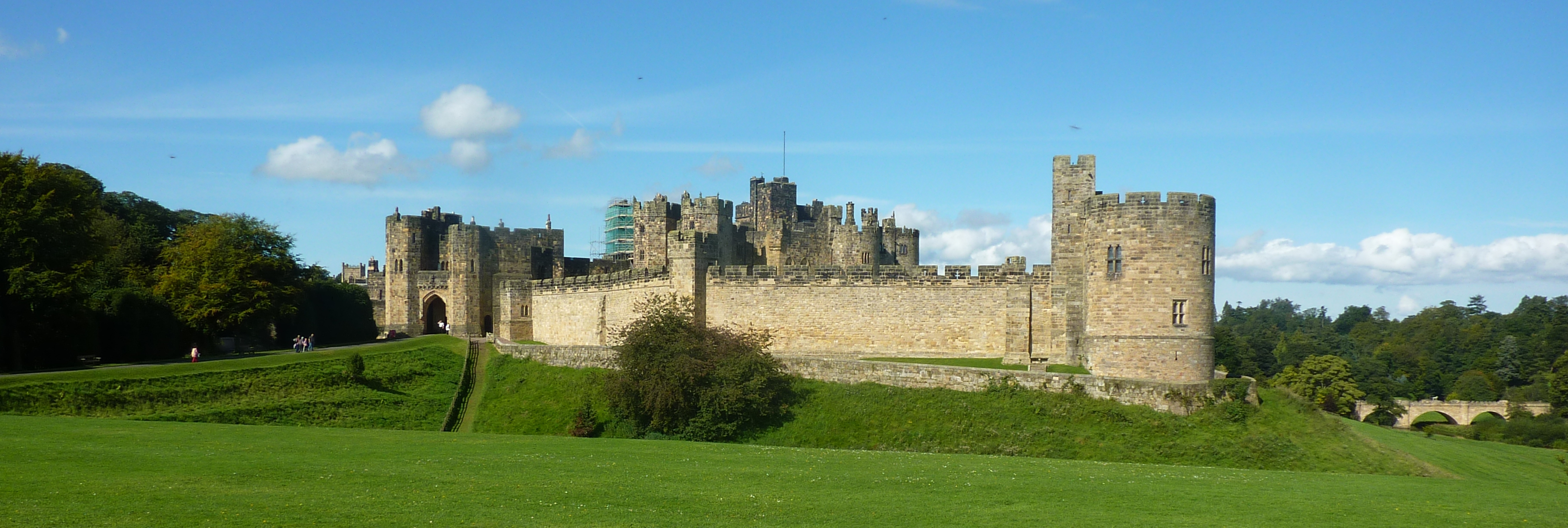 Alnwick Castle in Alnwick, Northumberland, England.